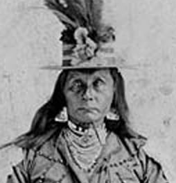 Cayuse man known as Cutmouth John, Washington, ca.1865